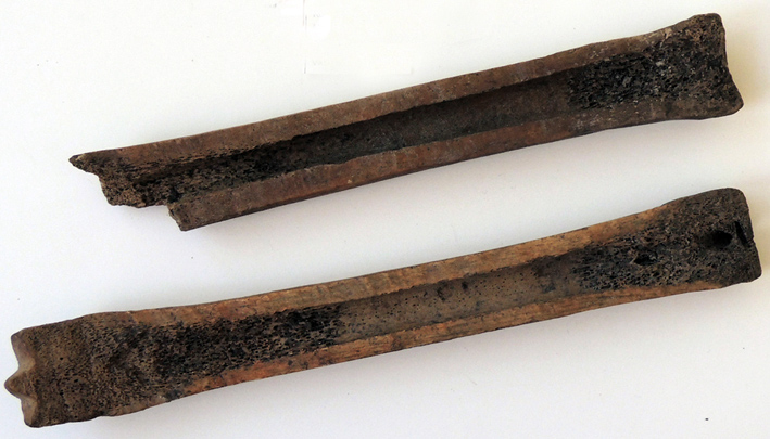 Pair of bone skates from Sigtuna, Sweden. Horse, metatarsus III, legth 260 and 231 mm. Foot sides cut down to marrow cavity. Late 12th century.